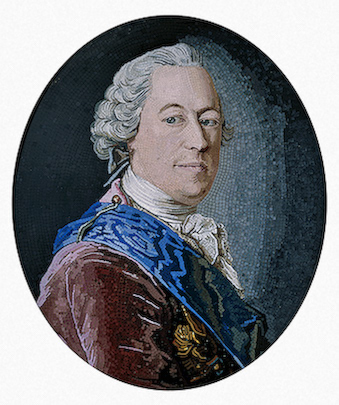 Count Mikhail Illarionovich Vorontsov.